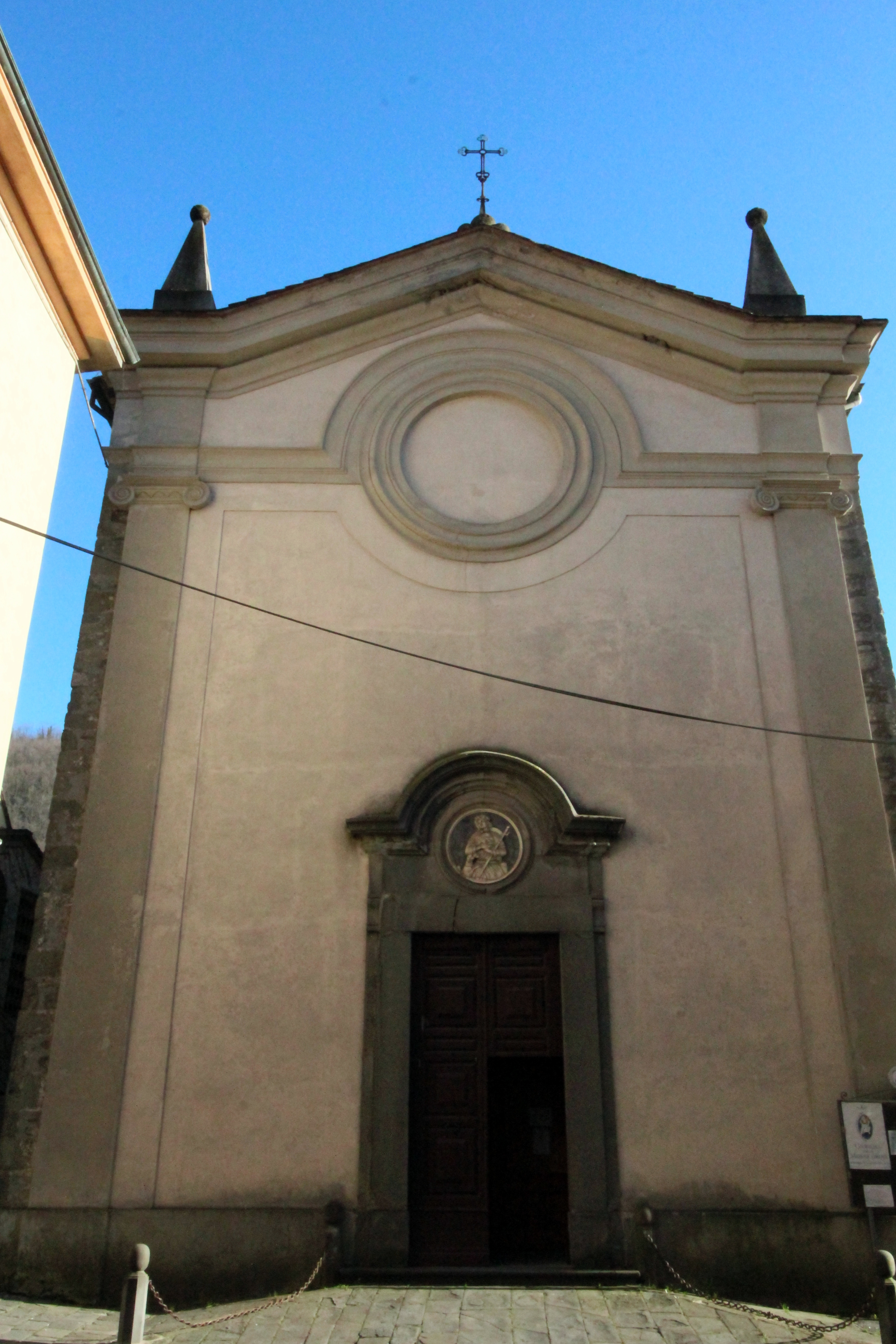 Church of San Rocco in Borgo a Mozzano, Province of Lucca, Tuscany, Italy